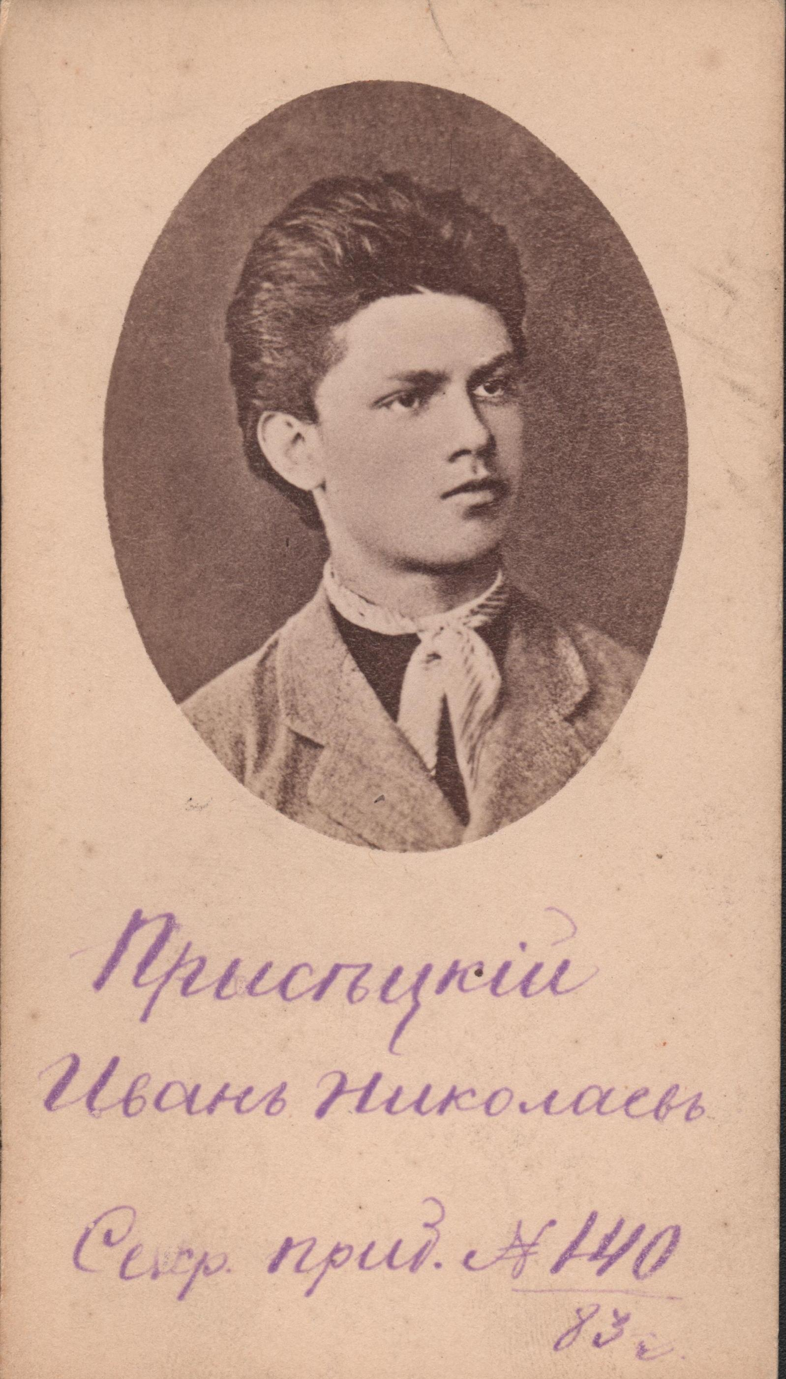 Jan Prysiecki - a Polish revoluitionary